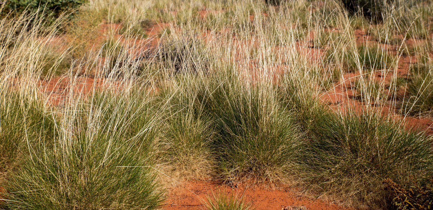 Sandy desert and Spinifex grass habitat of the variable fat-tailed gecko (Diplodactylus conspicillatus)